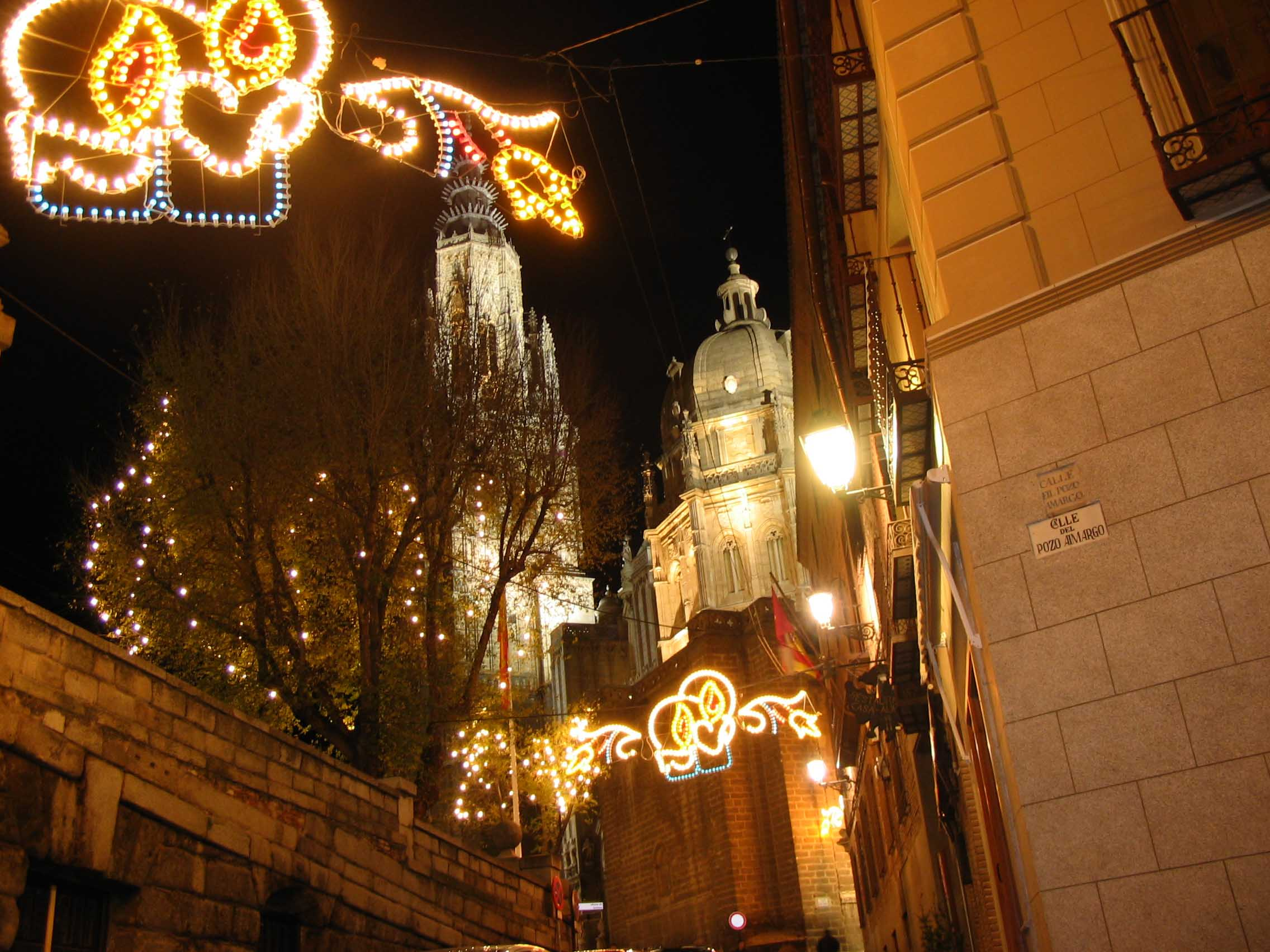 Cathedral of Toledo. Night view with Christmas decoration.